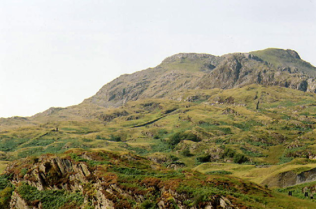 Moelwyn Bach viewed from Tan y Grisiau. An incline system was built in the 1860s to link Moelwyn slate quarry - at SH661442 - to the Ffestiniog Railway. Remains of three inclines are to be seen here